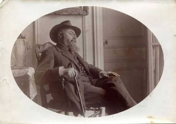 Francis Jammes (1868-1938) - French poet and writer. Photo by Paul Marsan dit Dornac, 7 jule 1919.